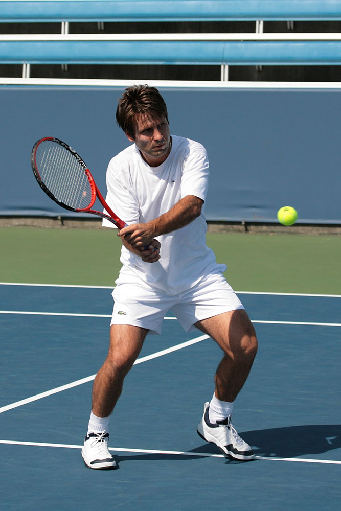 Fabrice Santoro ATP Tennis Professional 2006 Western & Southern Financial Group Masters Cincinnati, Ohio